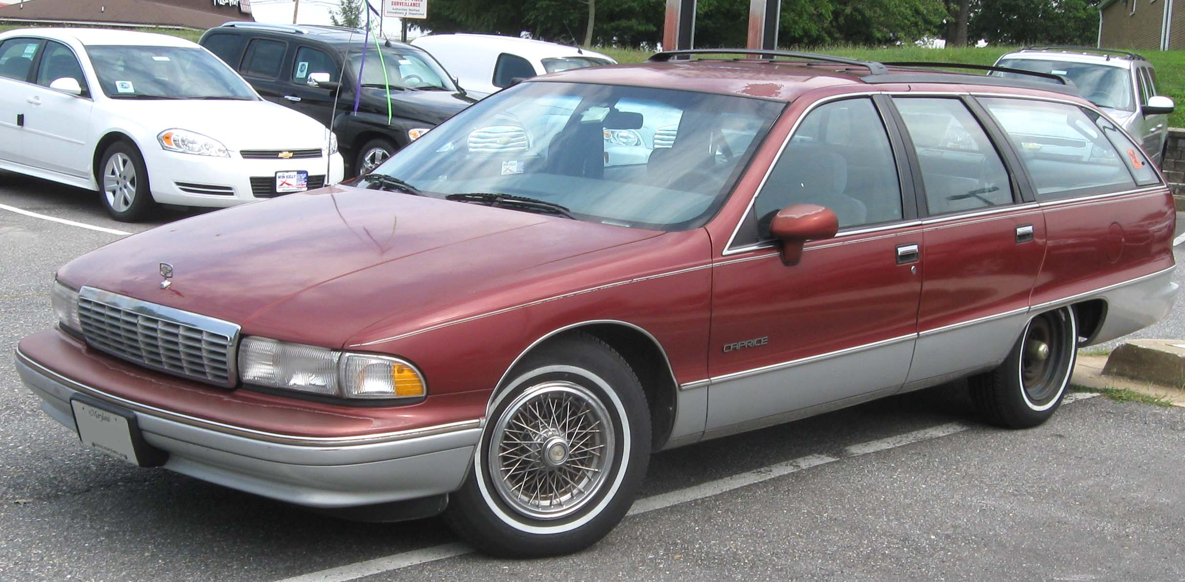 1991 Chevrolet Caprice photographed in Clarksville, Maryland, USA.